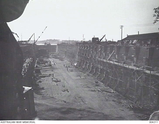 BRISBANE, QLD. C.1942. THE DRYDOCK UNDER CONSTRUCTION AT CAIRNCROSS GRAVING DOCK, LOOKING TOWARDS THE ENTRANCE. (NAVAL HISTORICAL COLLECTION)